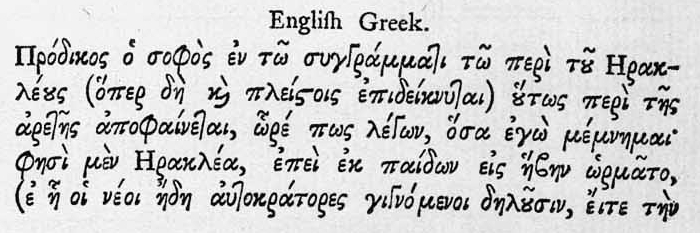 Greek typeface sample, detail from a multilingual sample sheet by typesetter William Caslon, 1728